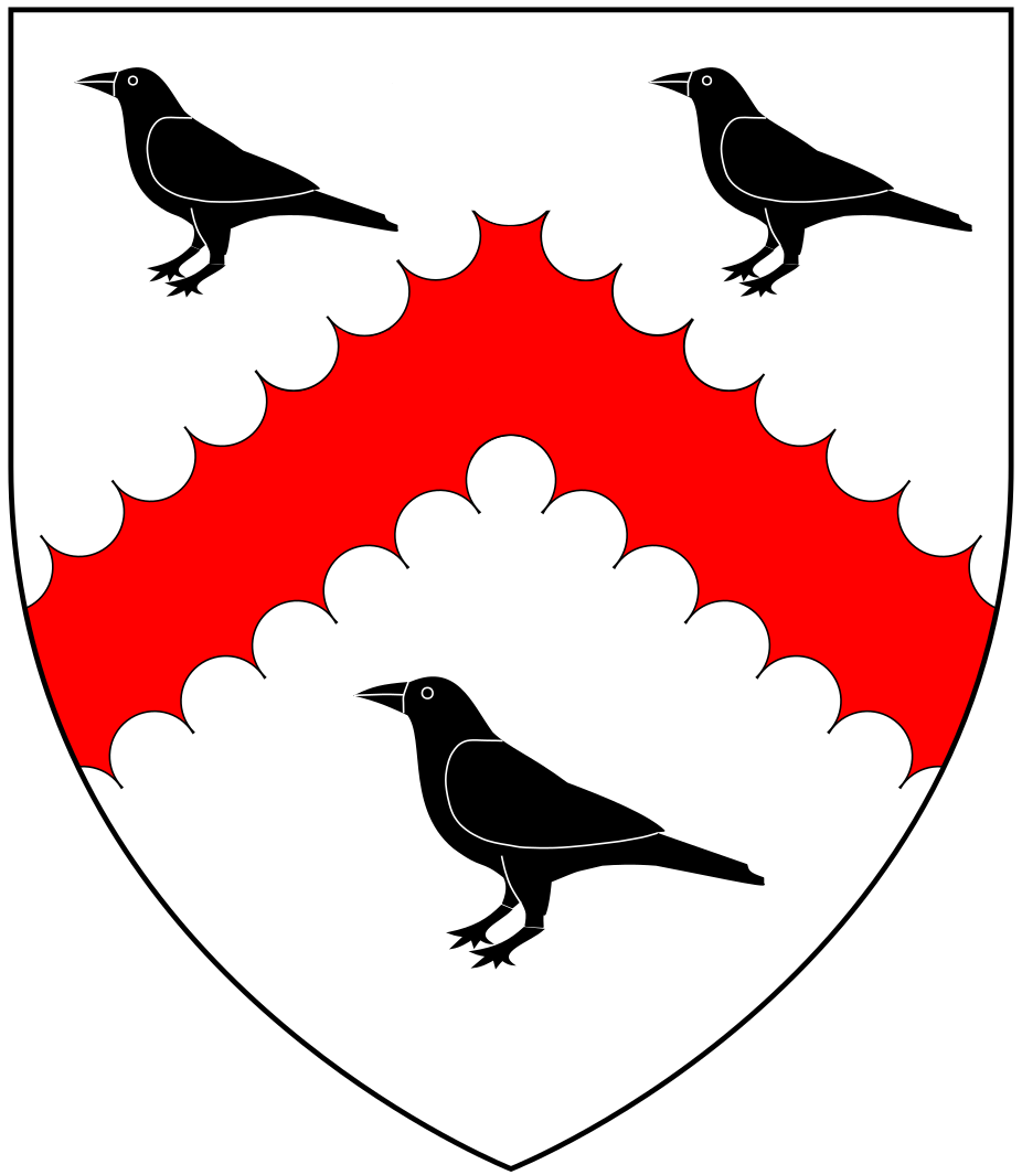 Canting arms of Croker of Lyneham, Devon: Argent, a chevron engrailed gules between three crows proper (Pole, Sir William (d.1635), Collections Towards a Description of the County of Devon, Sir John-William de la Pole (ed.), London, 1791, p.478; Given as "ravens", thus losing the canting element, in Vivian, Lt.Col. J.L., (Ed.) The Visitations of the County of Devon: Comprising the Heralds' Visitations of 1531, 1564 & 1620, Exeter, 1895, p.254)